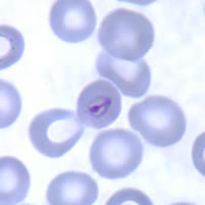 Birds-eye trophozoite of P. malariae in a thin blood smear.